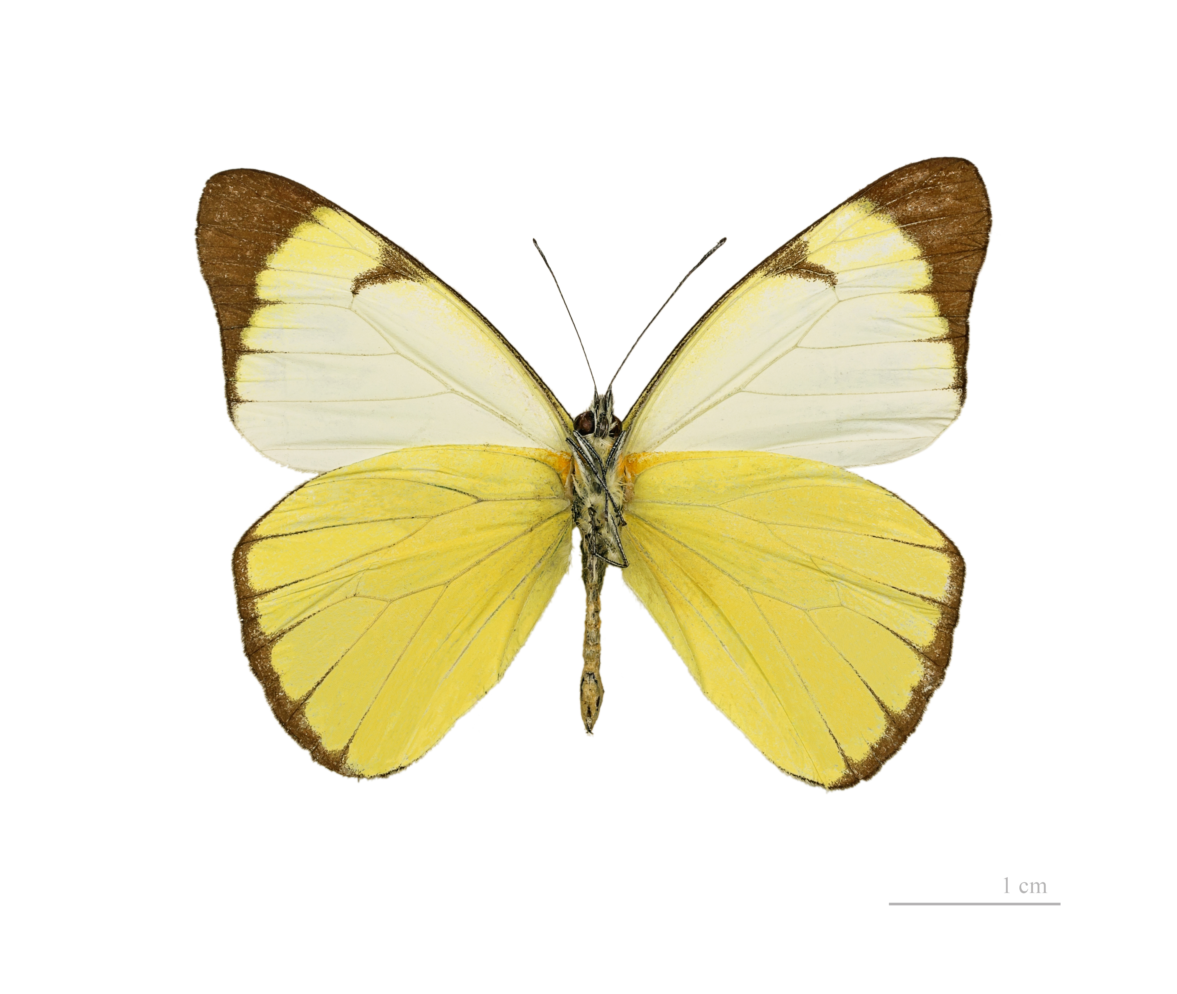 ♂ - △ Ventral side Locality : Amazonas Region, North of Peru.